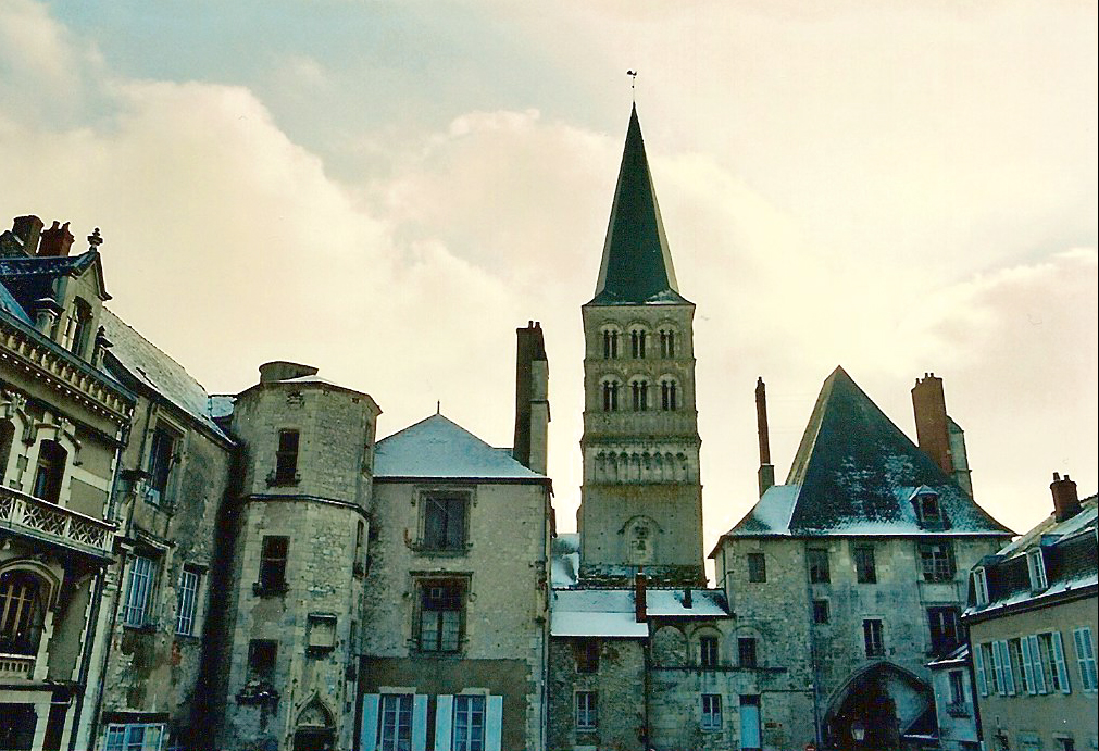 A church in La Charité-sur-Loire